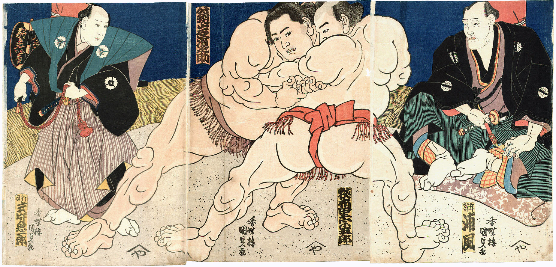 Sumo wrestling, three pieces, full view: two wrestlers during a bout. left side: a gyoji (referee) carrying a wooden war-fan, right side: a shimpan (umpire)